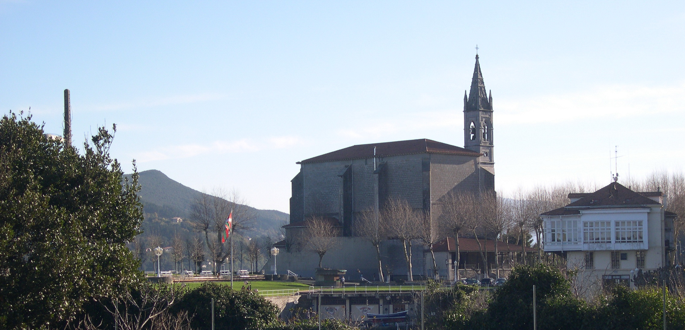 Church and boat. Mundaka. Biscay. Basque Country.